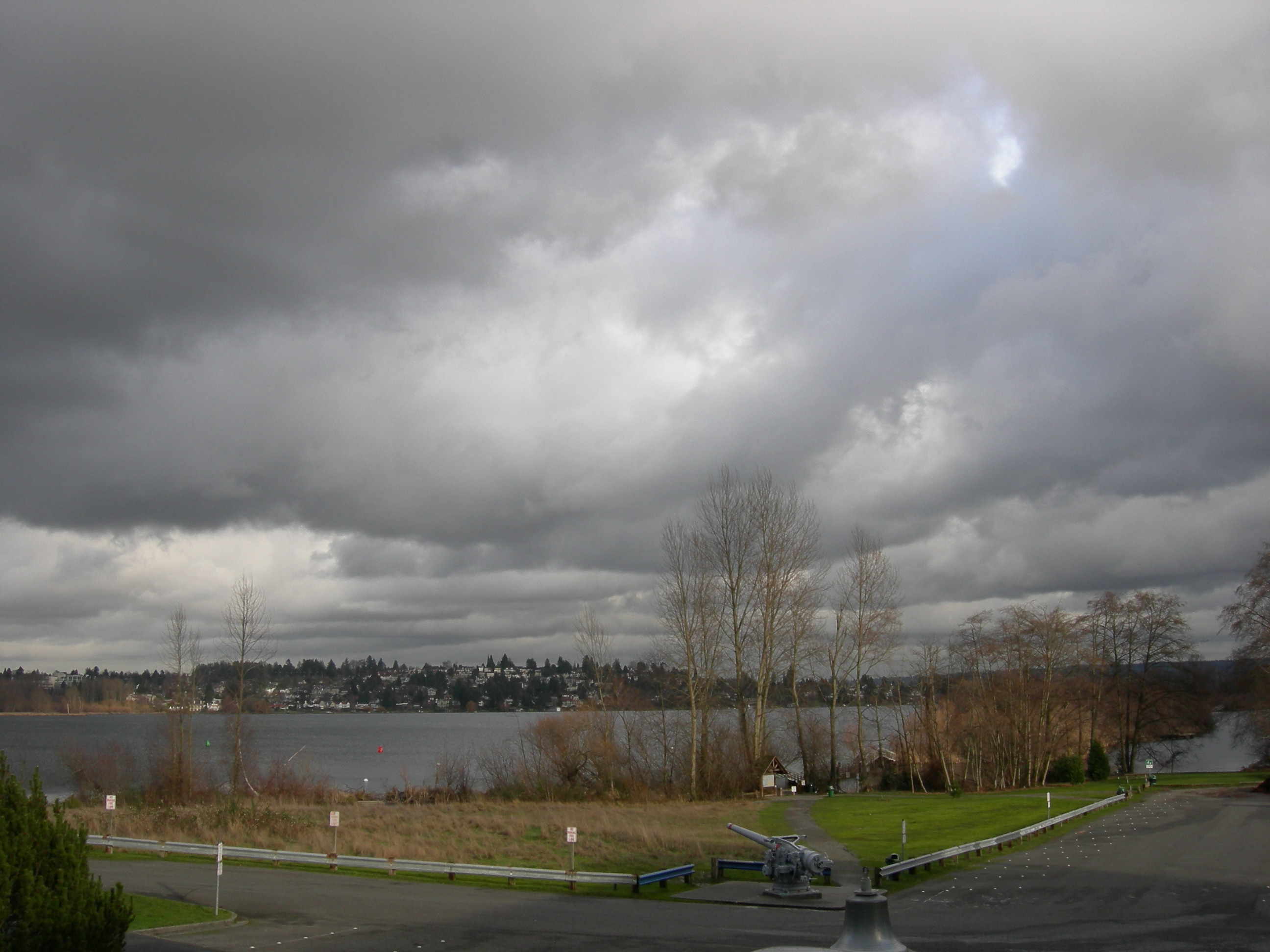 Union Bay, Seattle, looking northeast from the Museum of History and Industry toward Laurelhurst.